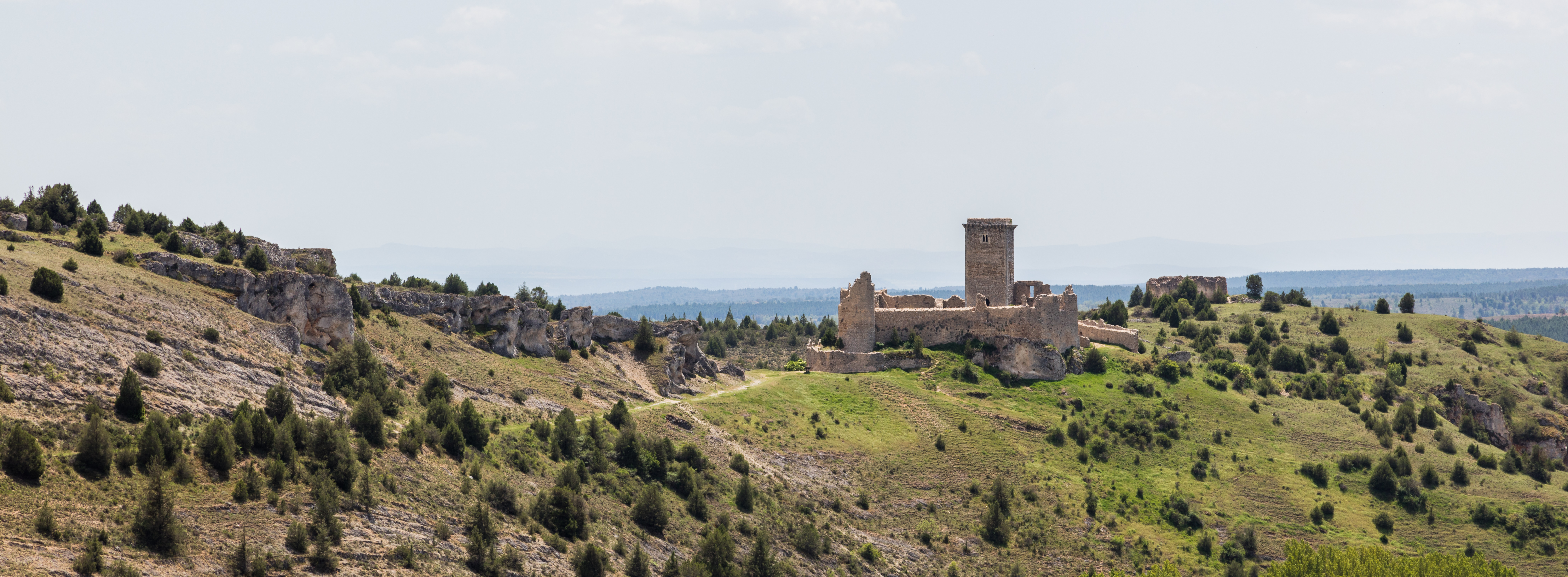 Castillo de Ucero, Ucero, Soria, Spain